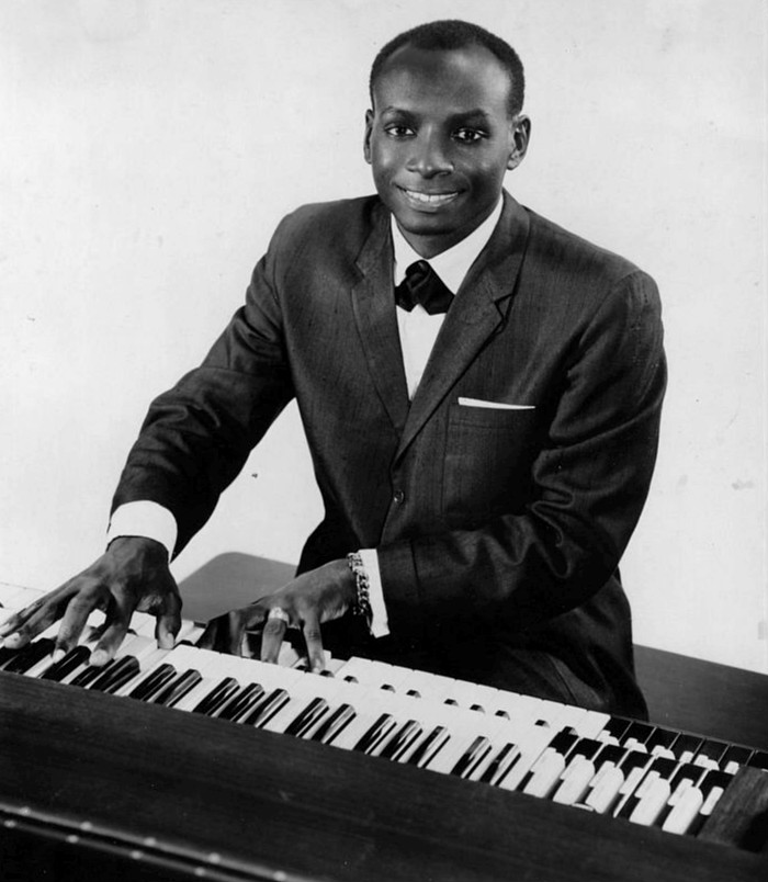 Photo of Earl Grant from an ad in Billboard.